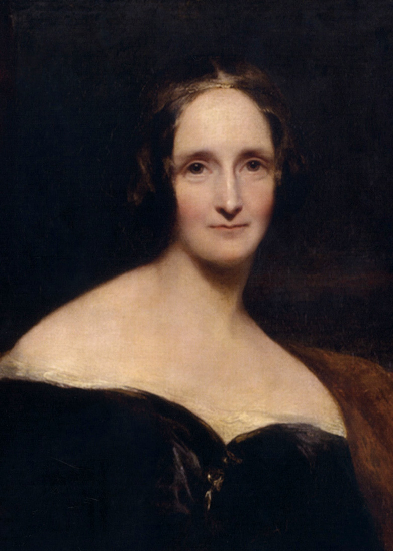 Portrait of Mary Shelley